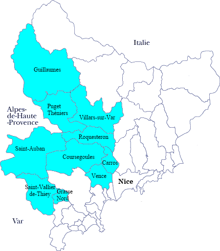 Map of Alpes Maritimes' 2nd constituency, France (2010 redistricting, into force from 2012 French legislative elections).